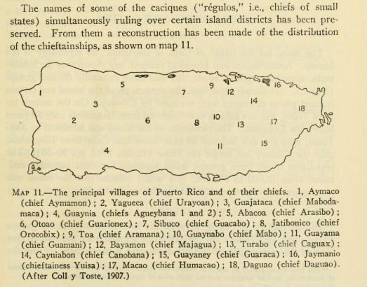 Smithsonian map of Puerto Rico caciques, after a 1907 original.